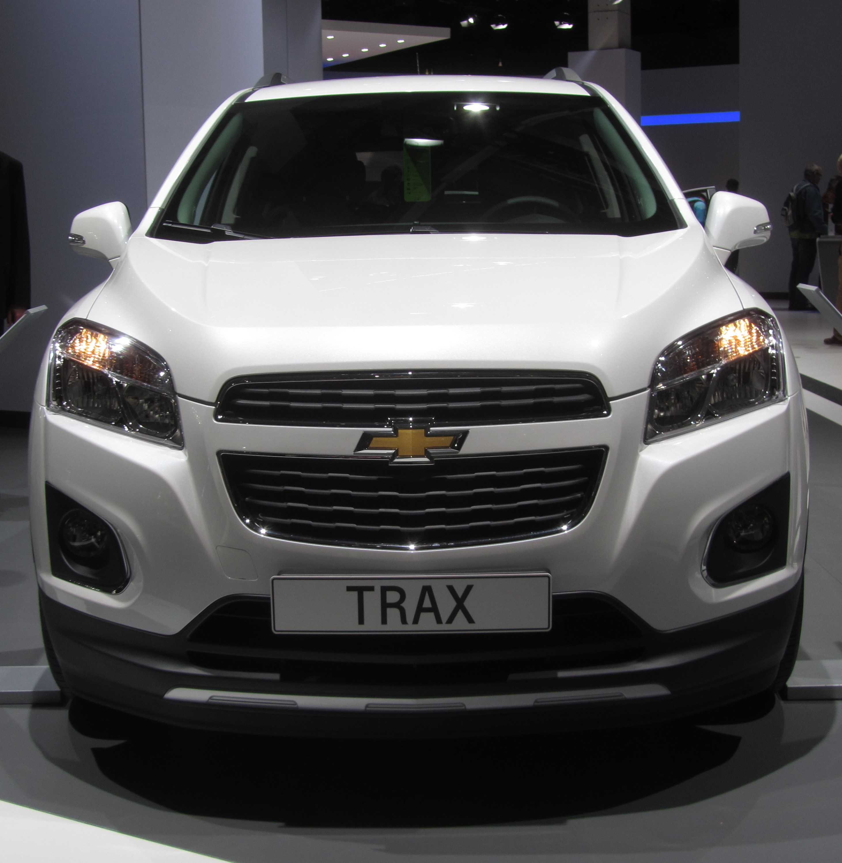 Front view of a white Chevrolet Trax at the IAA 2013 (Frankfurt Motor Show)